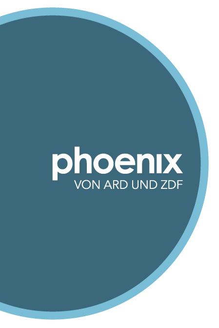 Fernsehsender phoenix, Deutschland / Germany